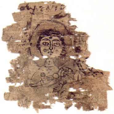 Papyrus PSI 1574. Madonna lactans. Girolamo Vitelli Papyrological Institute, Museo archeologico nazionale, Florence, inv. 2458.